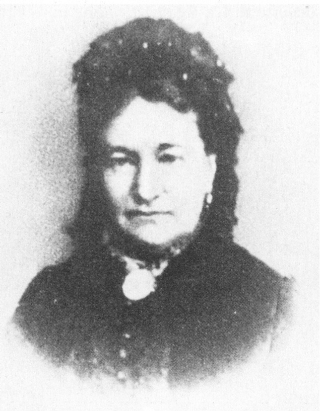 Picture of German writer Marie Calm